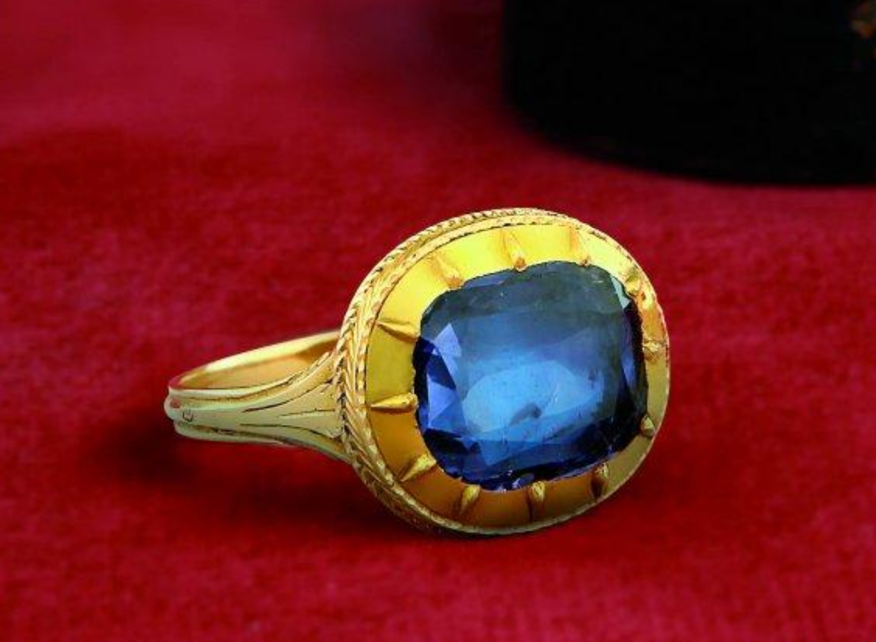 Bishop ring bearing the coat of arms of Pope Leo XII. Silversmith Domenico Arcieri. Rome circa 1825.